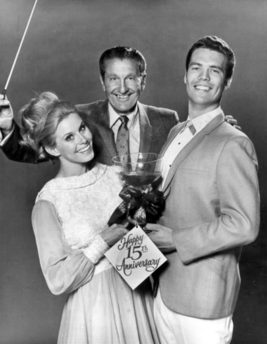 Publicity photo of Cissy King, Bobby Burgess and Lawrence Welk from the Lawrence Welk television program.